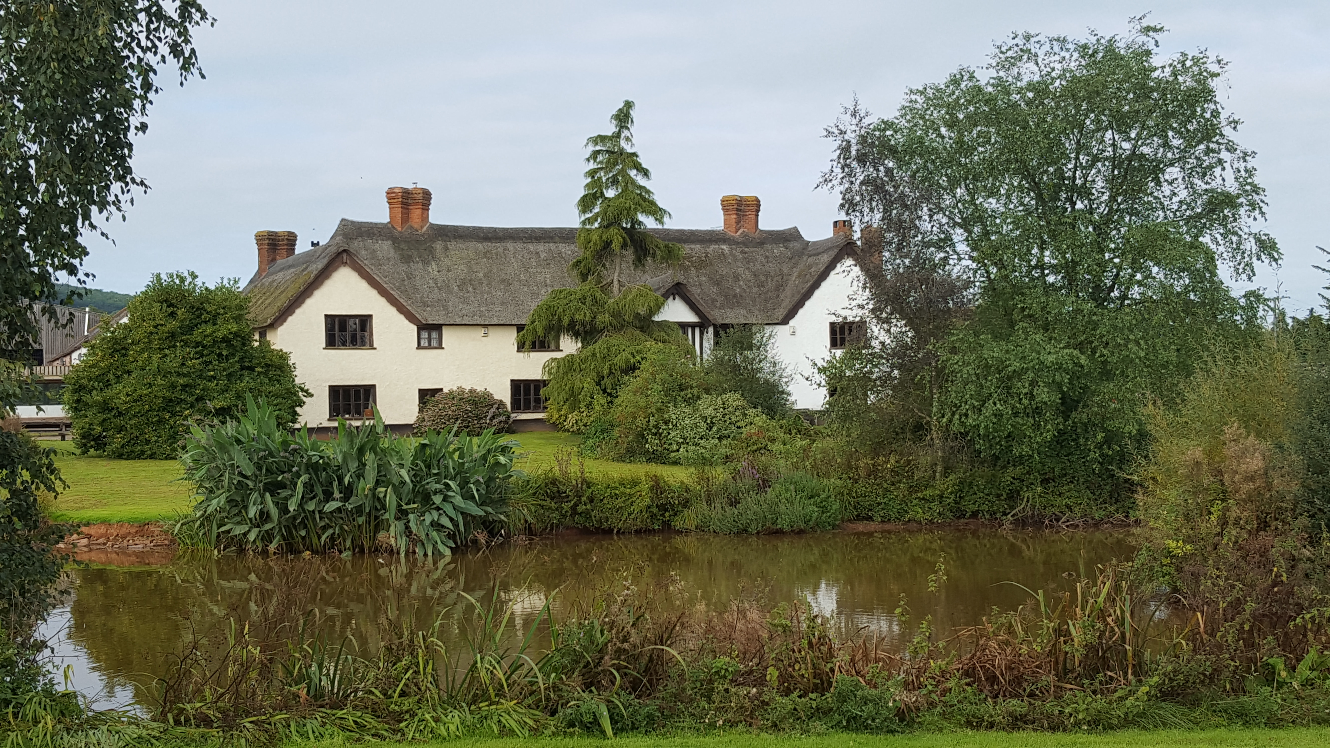 Langford Court Wikidata has entry Q17548259 with data related to this item.